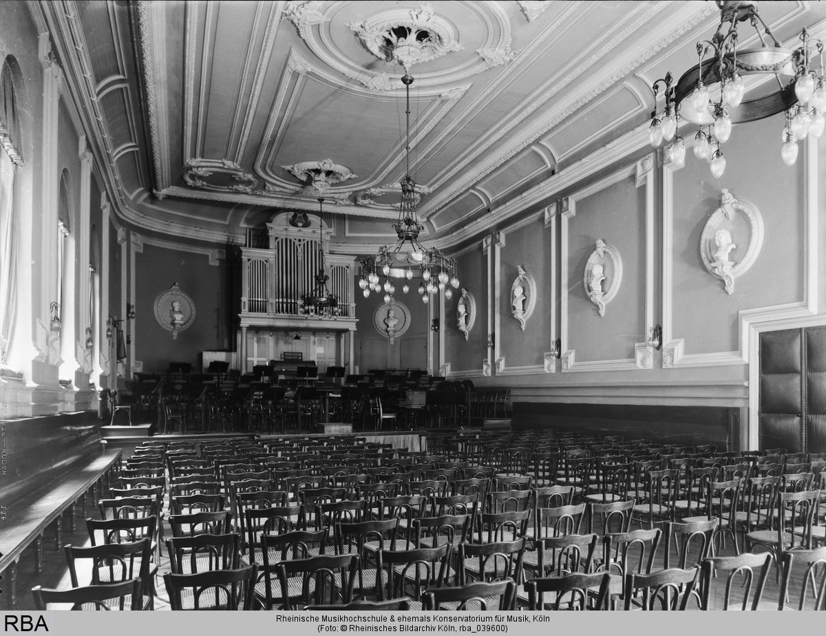 Rheinische Musikhochschule&ehemals Konservatorium für Musik, Köln, Wolfsstraße 5